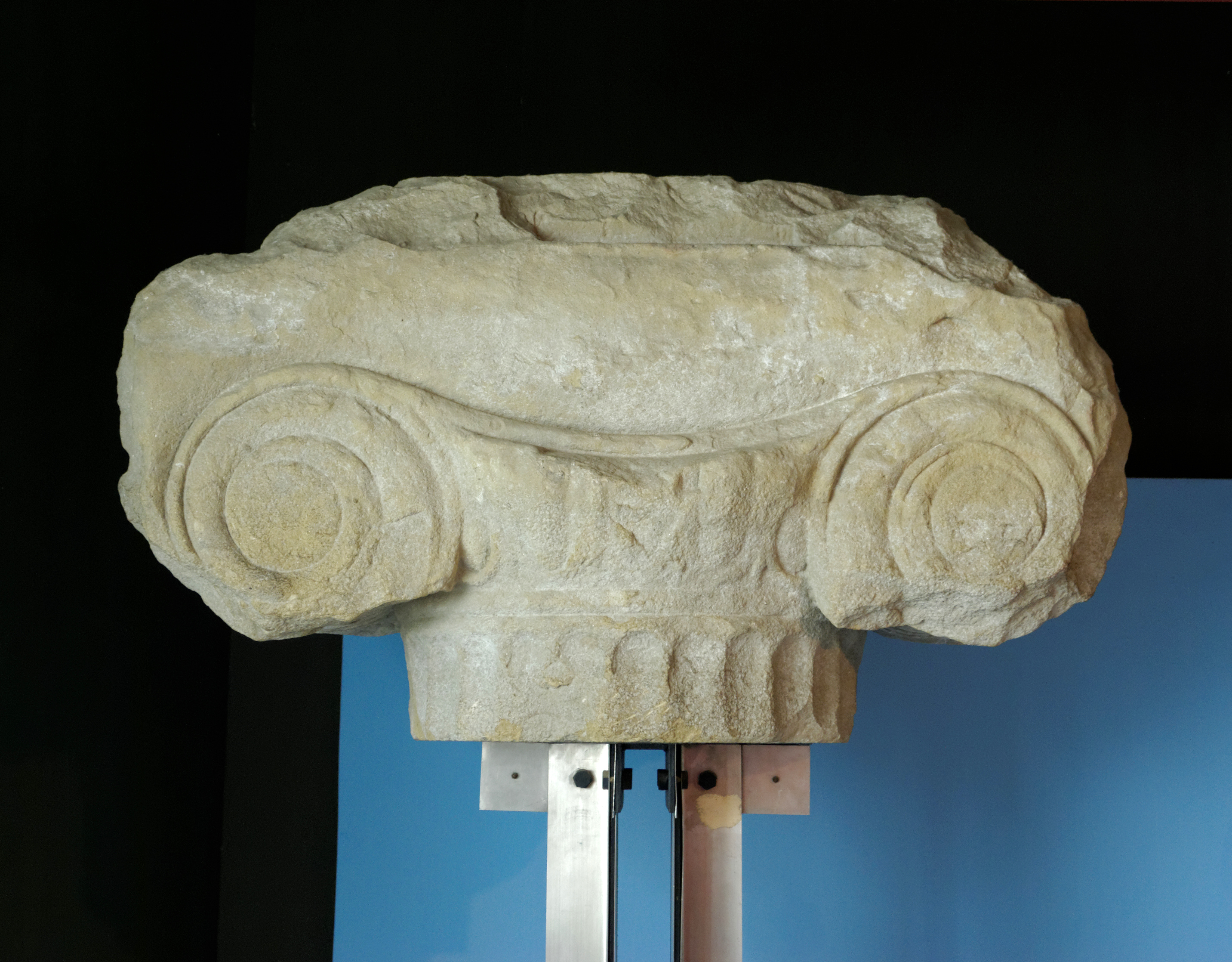 Italy, Paestum, Museum